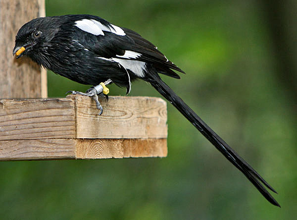 Magpie Shrike, Lowry Park Zoo, Tampa Florida